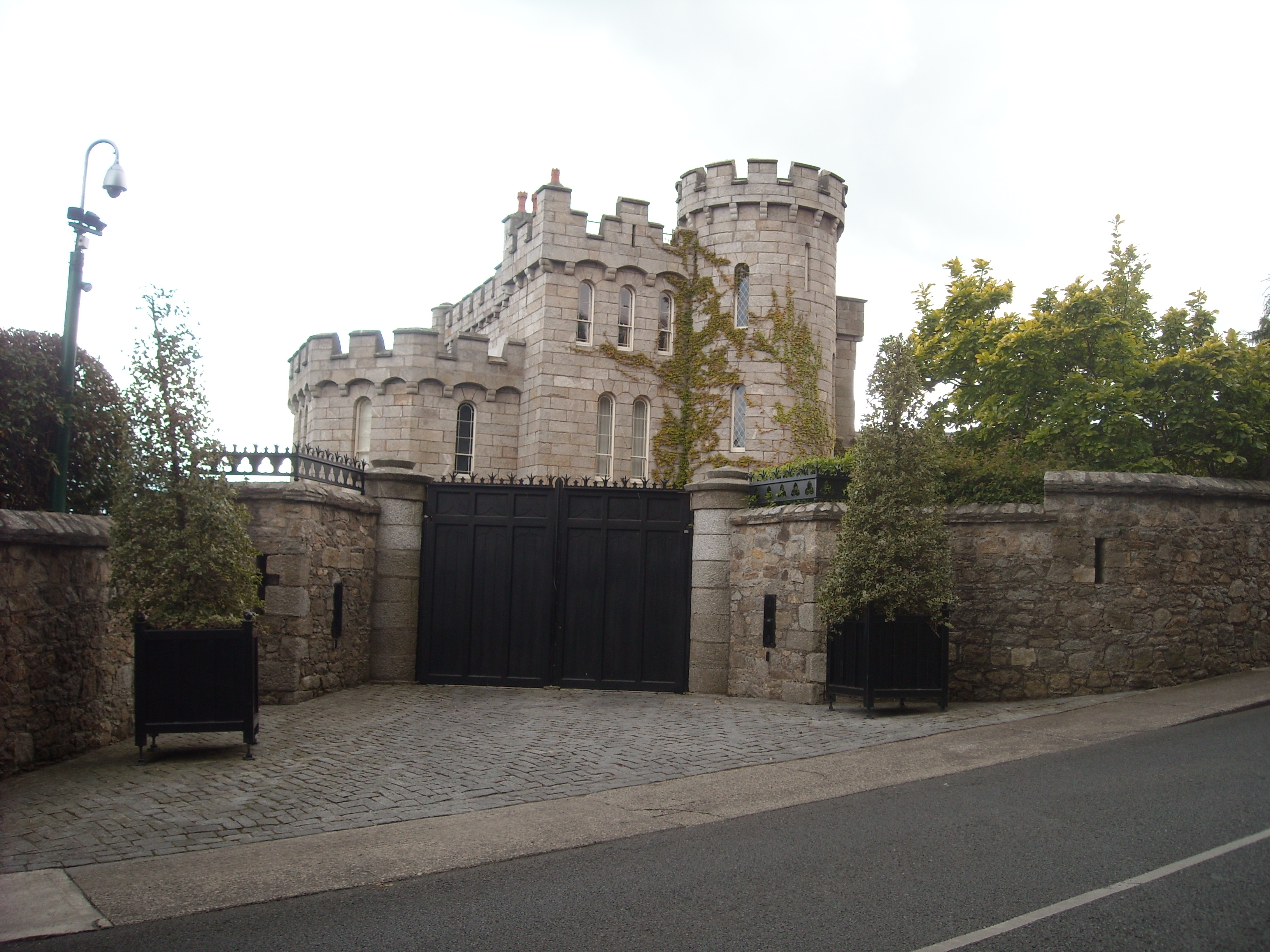 Enya's house, Manderley Castle, on Victoria Road in Killiney, County Dublin, Ireland.